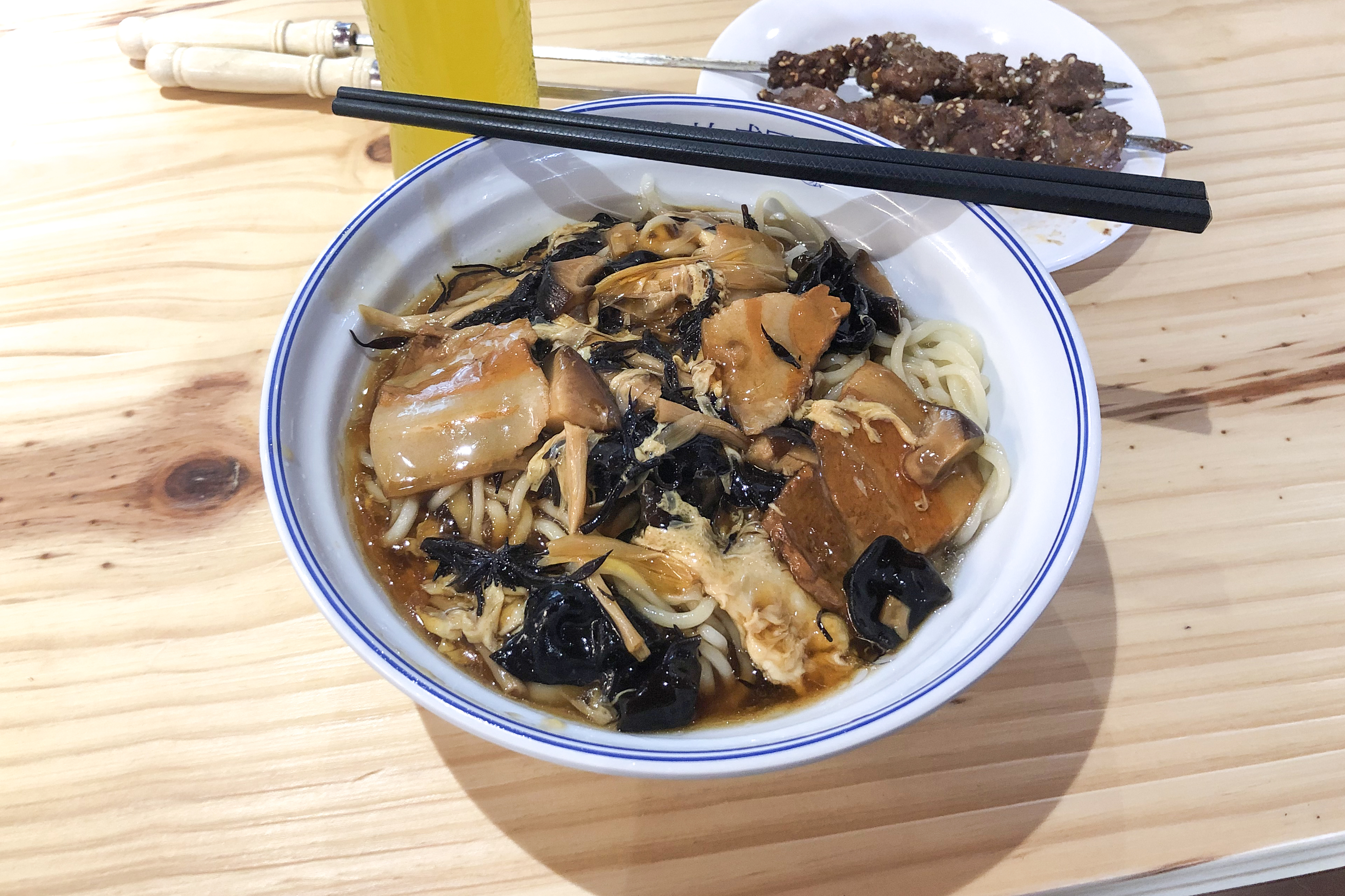 Limited offer...